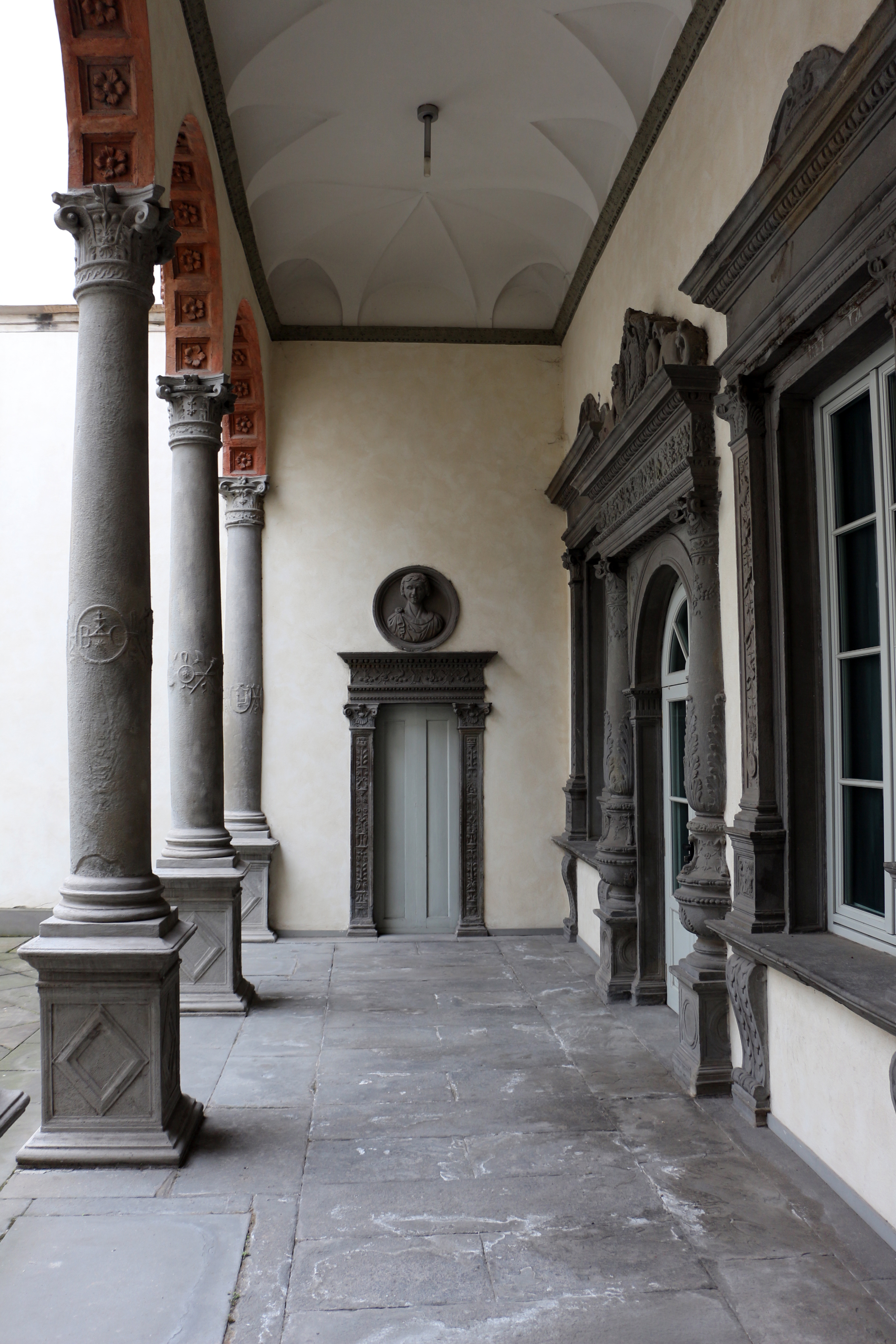 Museo Adriano Bernareggi